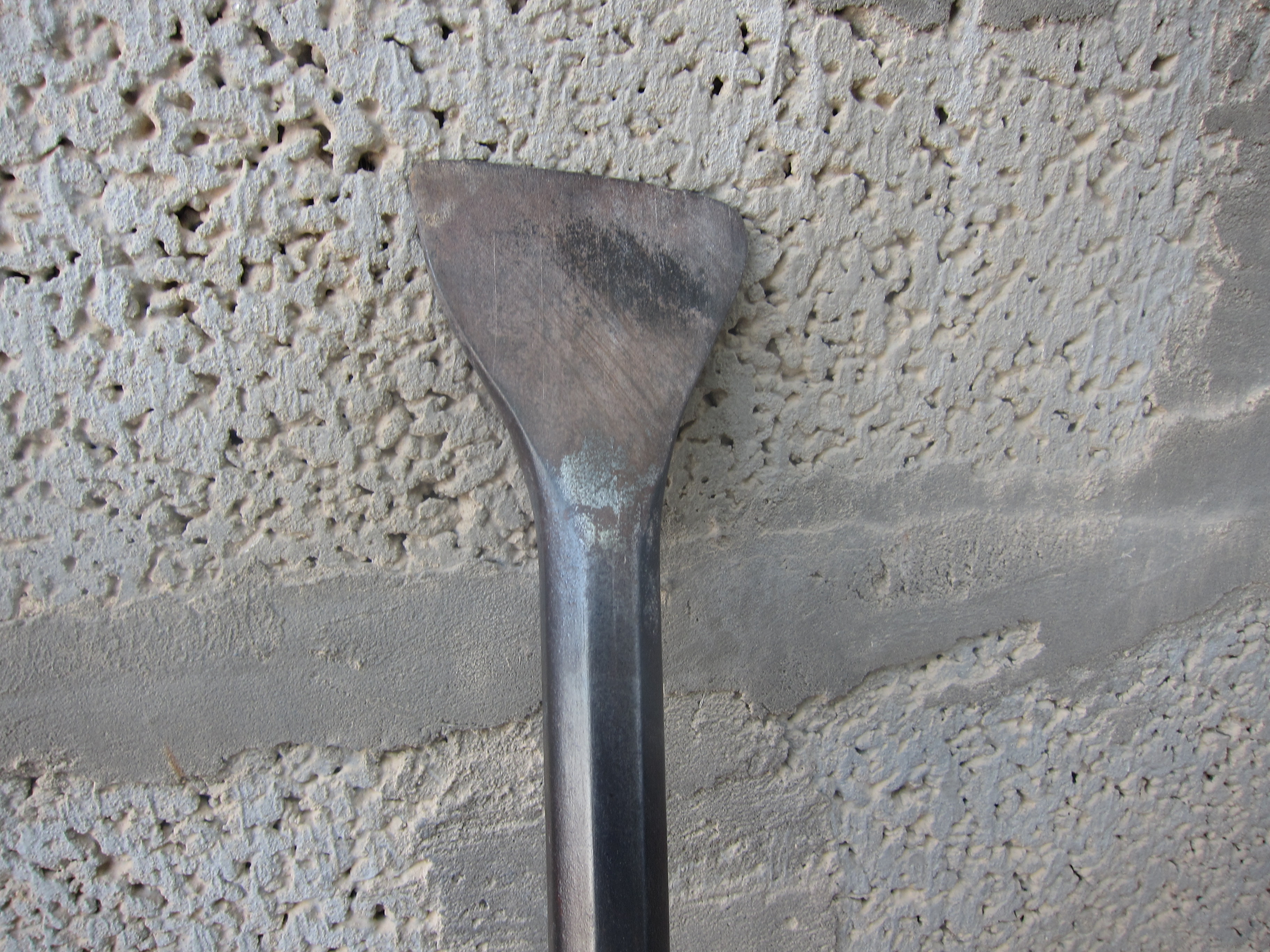 Crowbar, Prybar എളാങ്ക്, അലവാങ്ക്, ഇരുമ്പുപാര, കമ്പിപാര, കുത്തുപാര, കന്നക്കോൽ